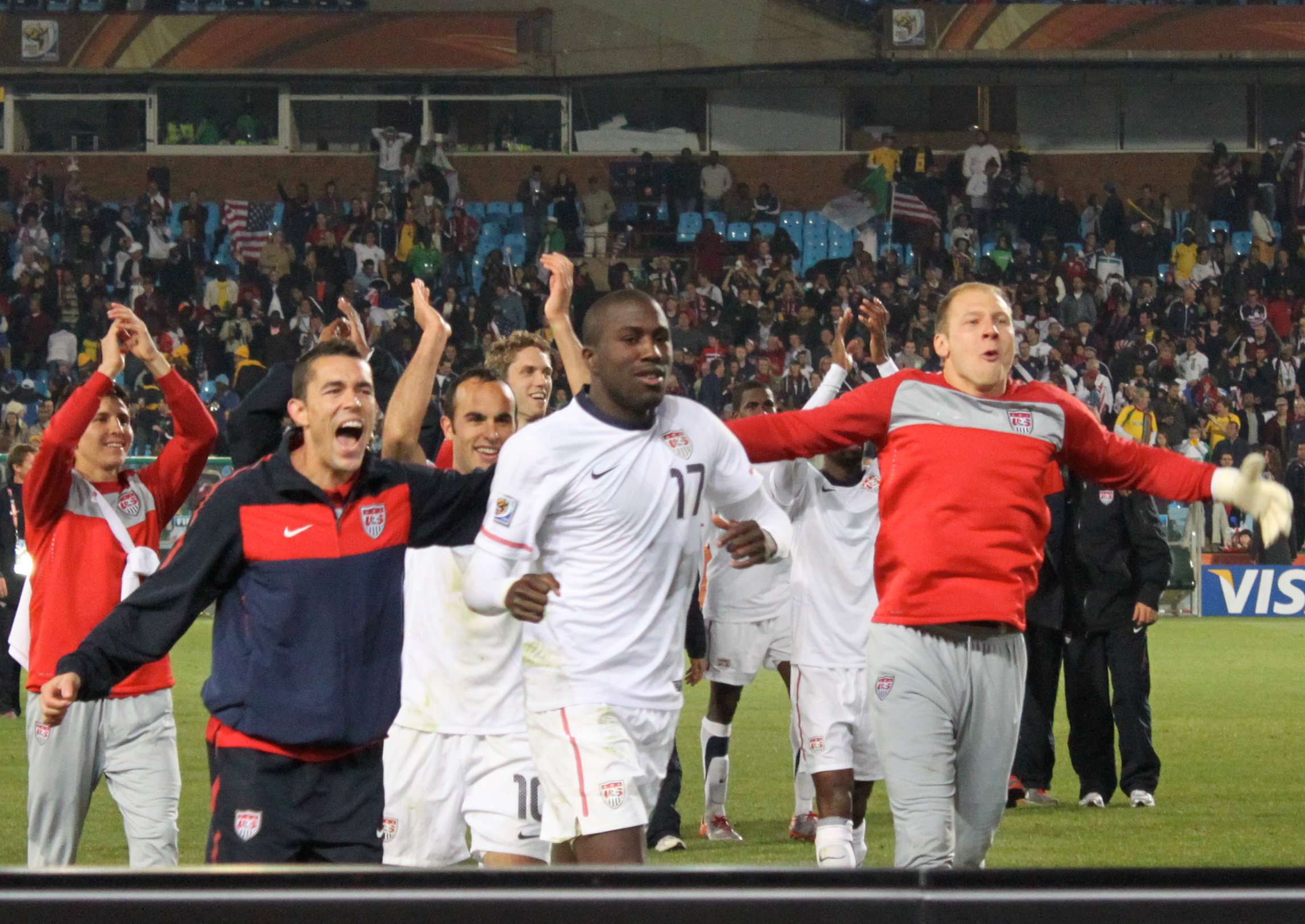 The USA defeated Algeria 1-0 in Pretoria to advance to the round of 16 at the World Cup in South Africa